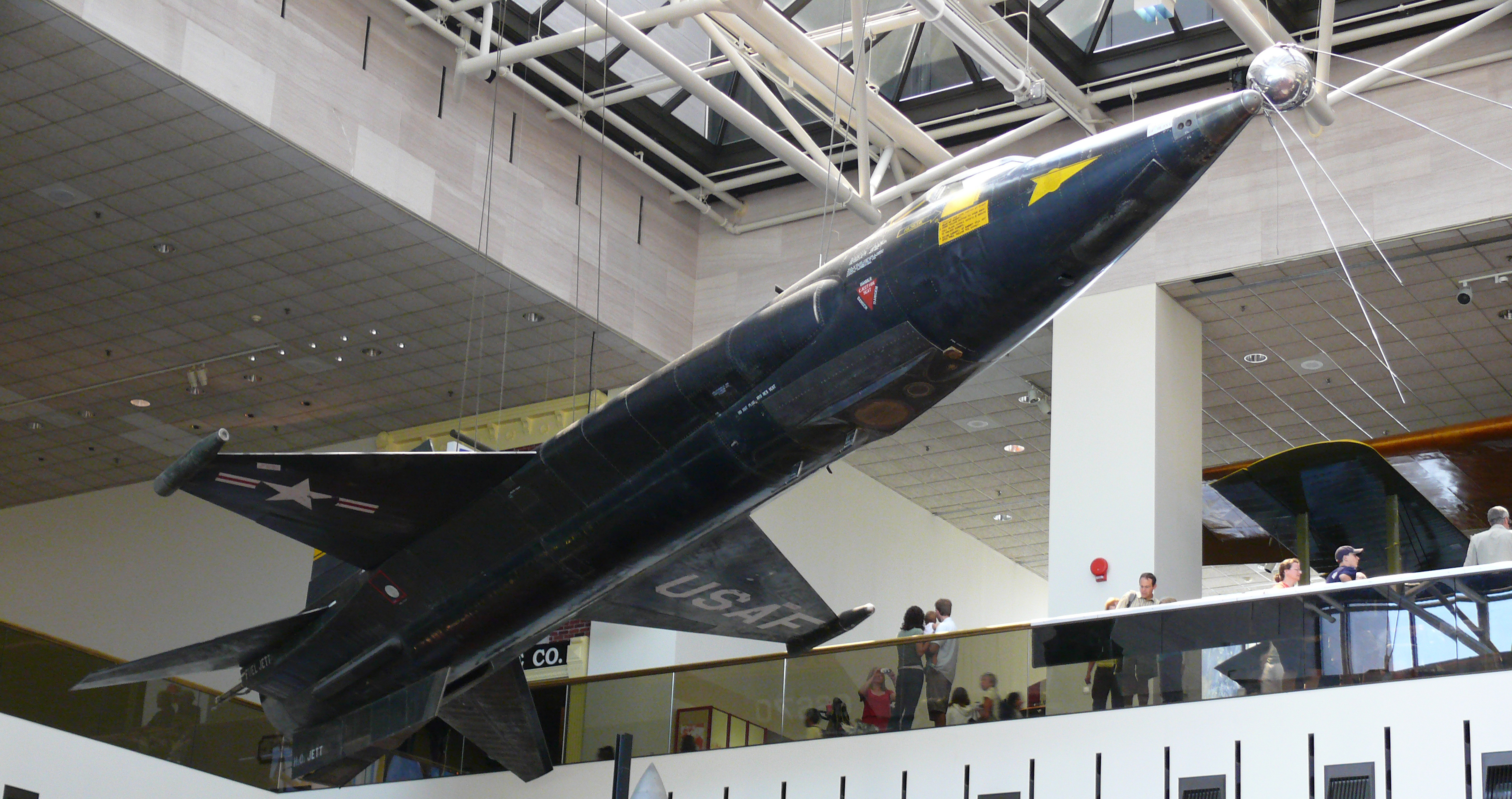 X-15 in the National Air and Space Museum, Washington DC. The American X-15 rocket-powered aircraft was part of the X-series of experimental aircraft. The X-15 set speed and altitude records in the early 1960s, reaching the edge of outer space.